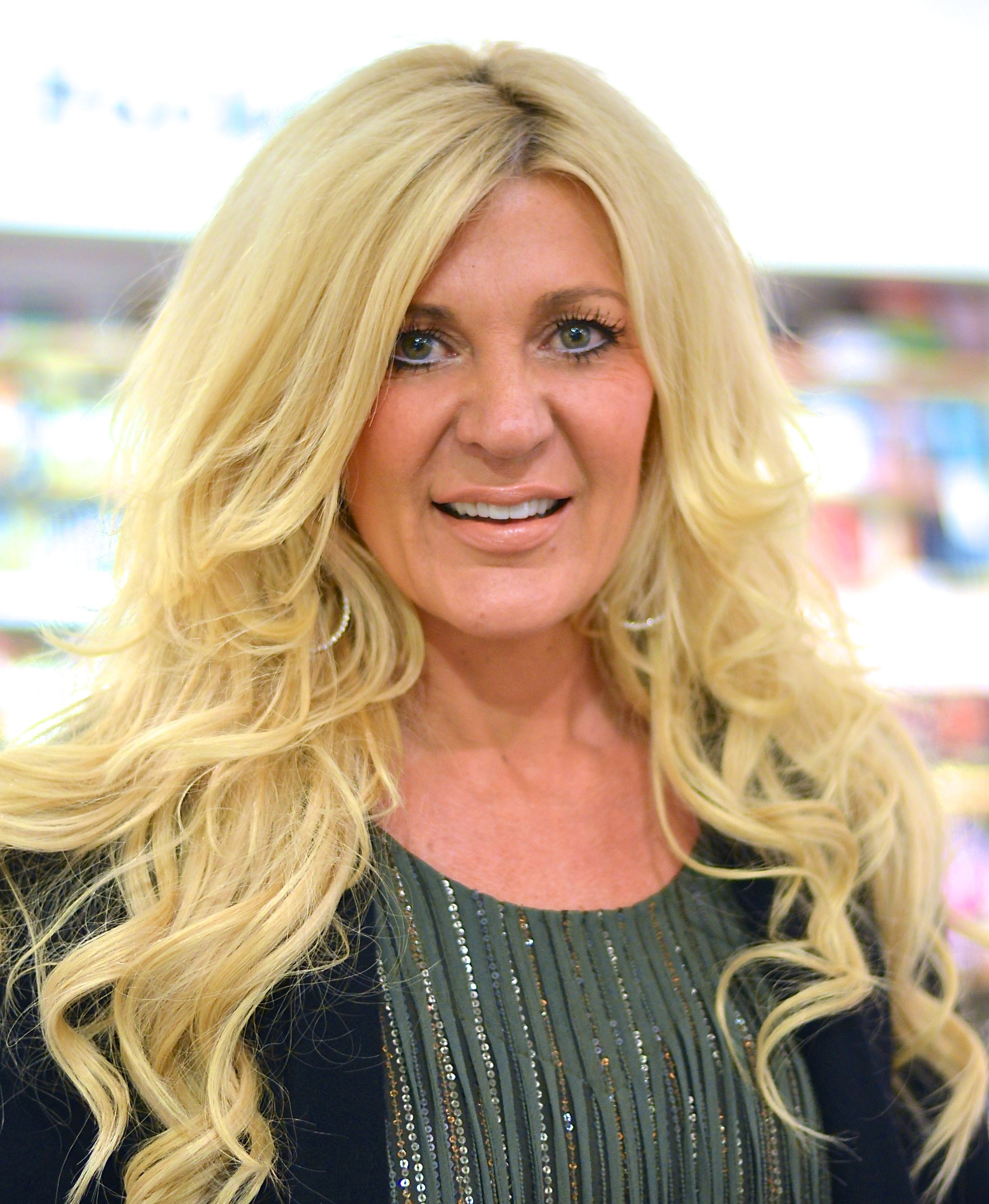 Maria Montazami at the book signing of her latest book, "Celebrate with Maria Montazami" on Akademibokhandeln downtown in Stockholm on December 4, 2013.